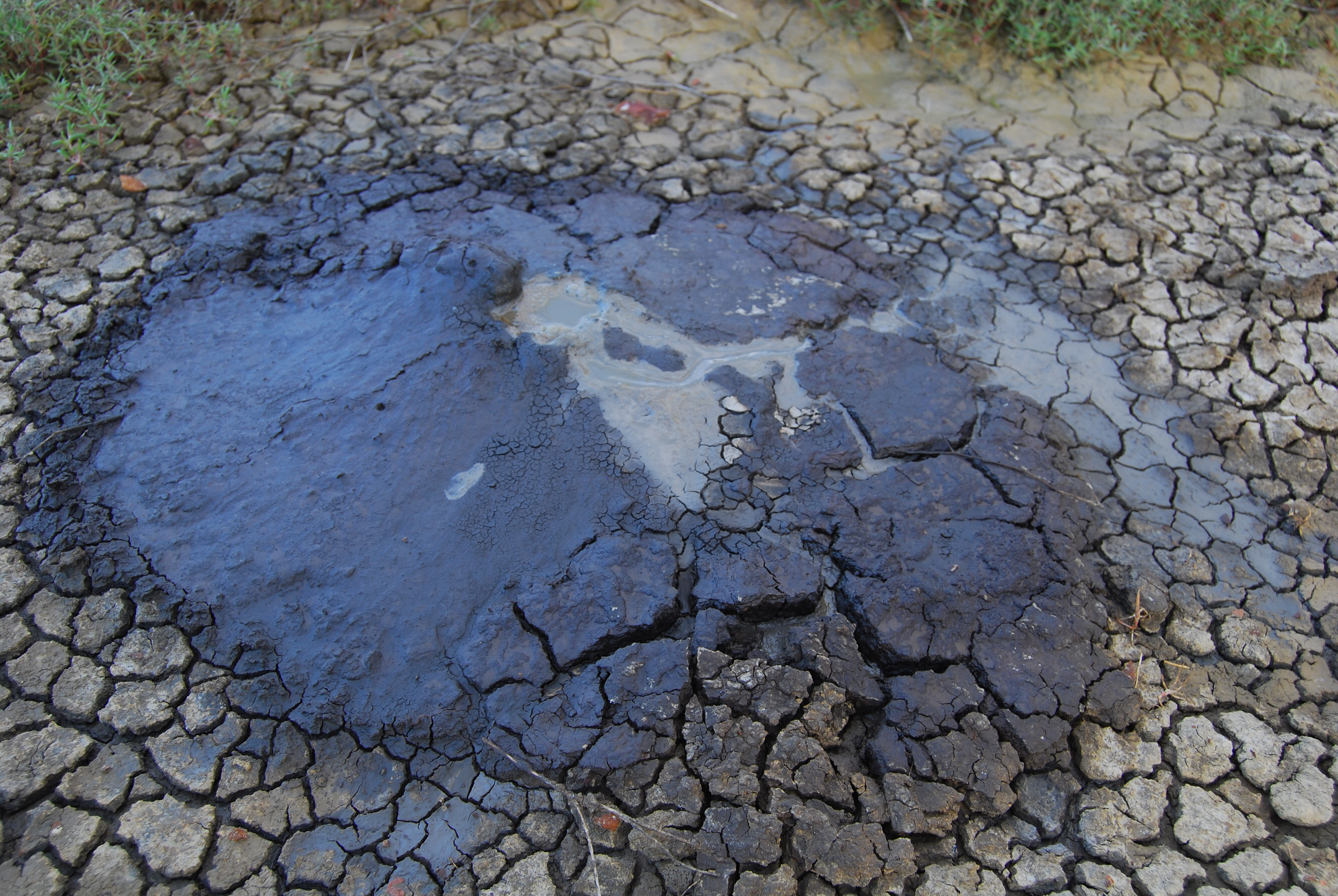 Mud volcano on the Kerch Peninsula, Crimea, Ukraine